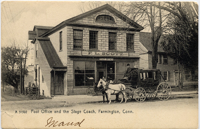 Postcard: Post Office and stage coach, Farmington, Connecticut, postmarked 1907 Description: "Rotograph iew of the post office in Farmington, Connecticut. There's a stagecoach in front of the building. [...] Postally used in 1906"